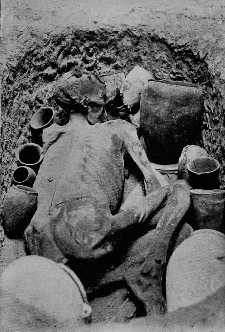 This is the photograph on the plate facing page 360 of Budge's book. The photo is of the mummified remains of a Pre-dynastic man (dated to 3400BC), currently on display in the British Museum ref.1900,1018.1 / EA 32751